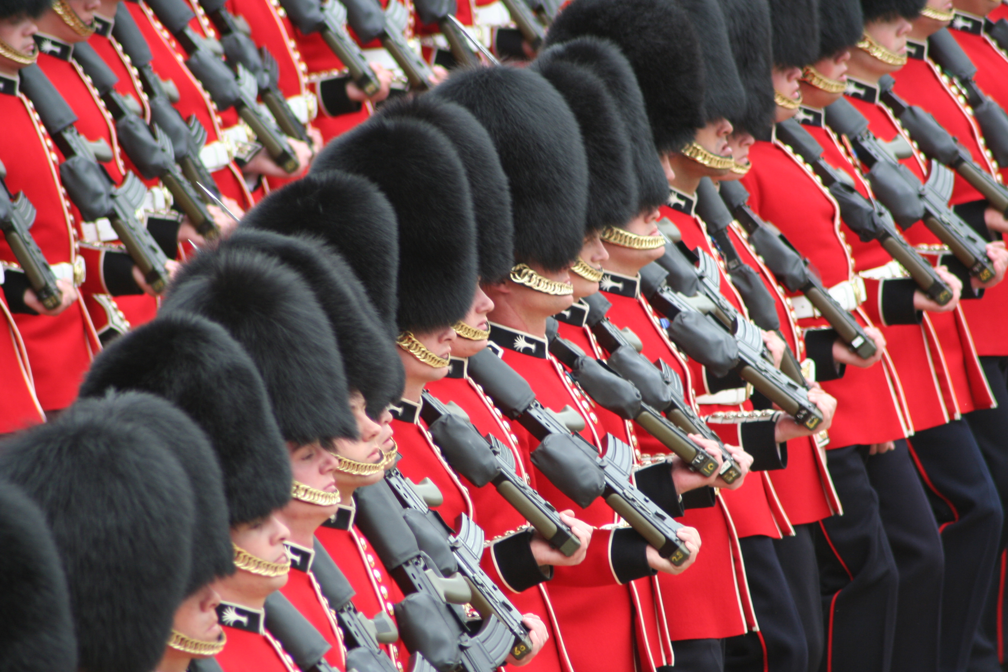 Queen's Official Birthday parade, soldiers in ranks